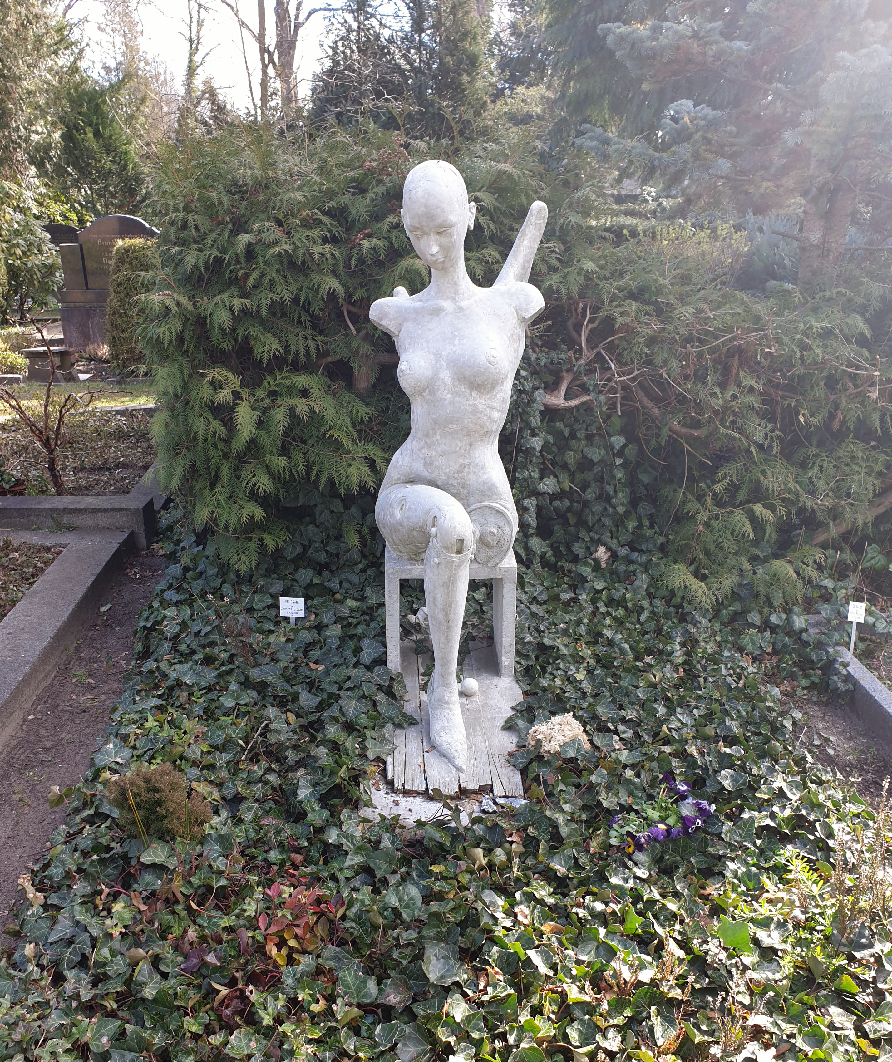 Grave, Clemens Gröszer, Aßmannstraße 12, Berlin-Friedrichshagen, Germany